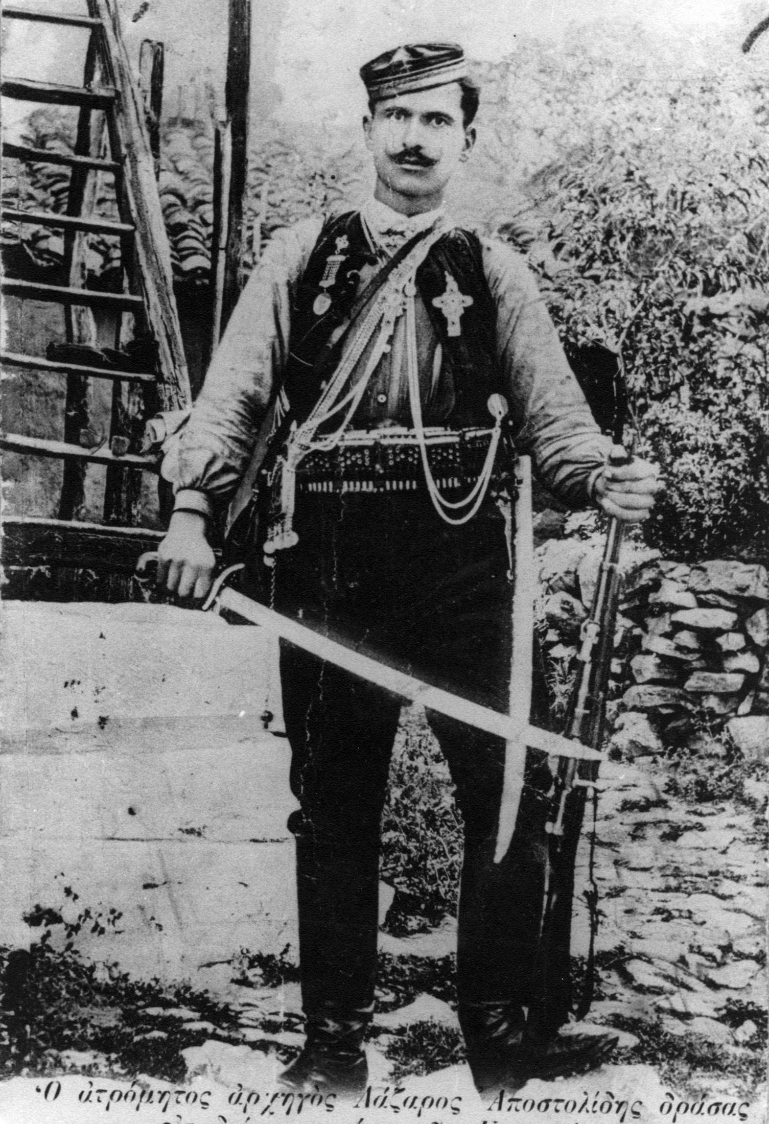 Captain Lazaros Apostolidis - Greek fighter of the Macedonian struggle.